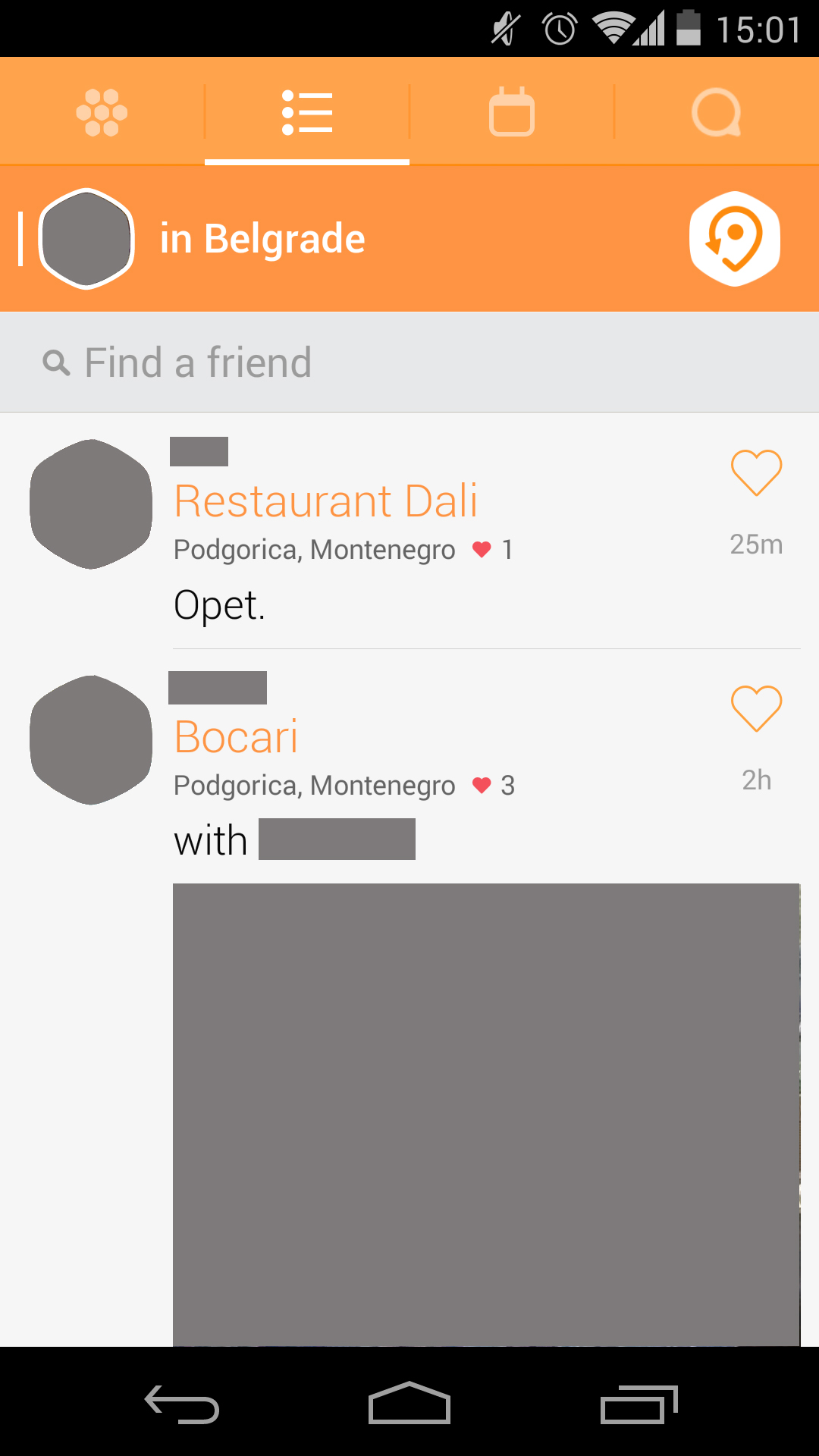 Swarm friends